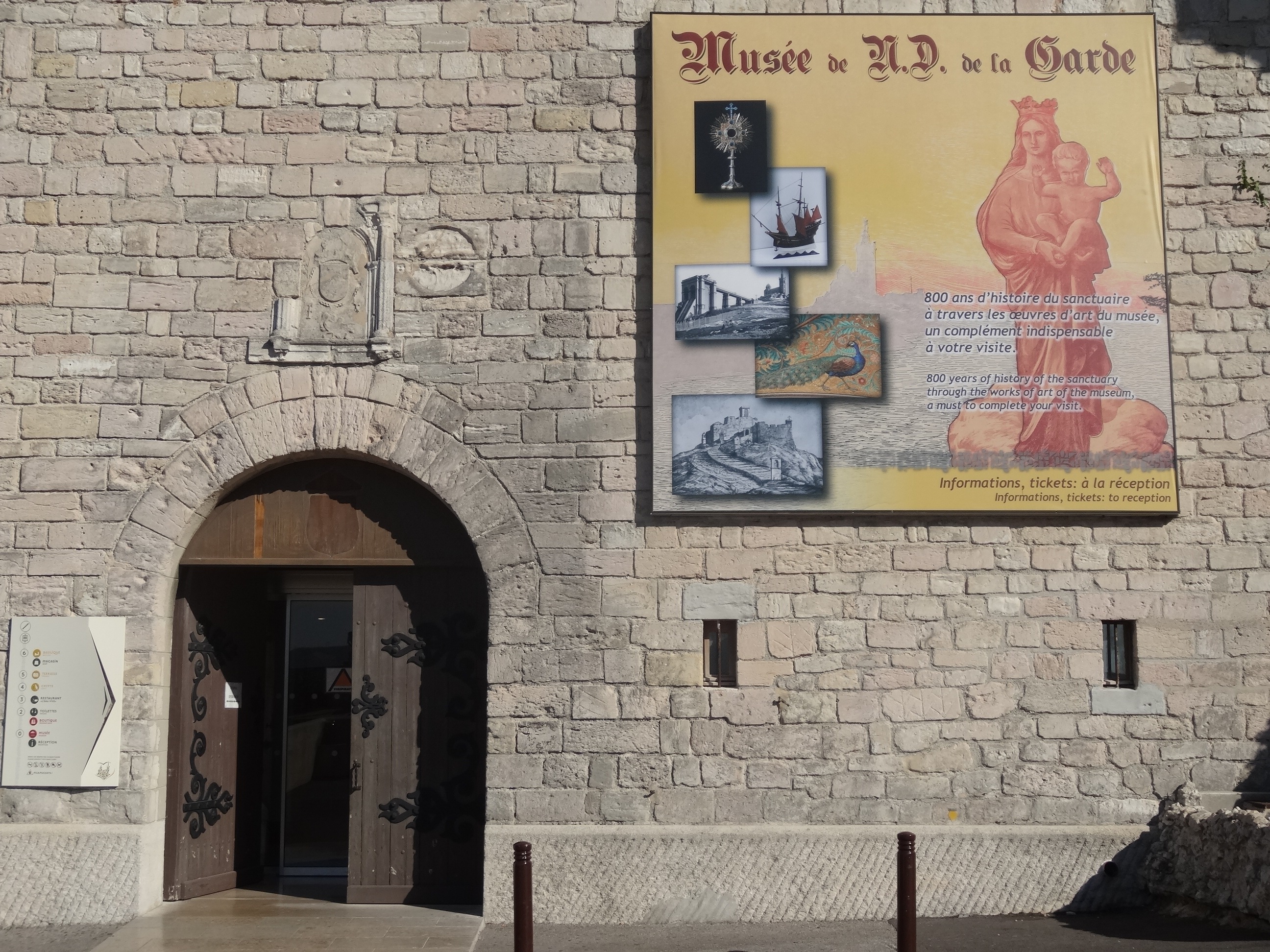 Museum of Basilique Notre-Dame de la Garde